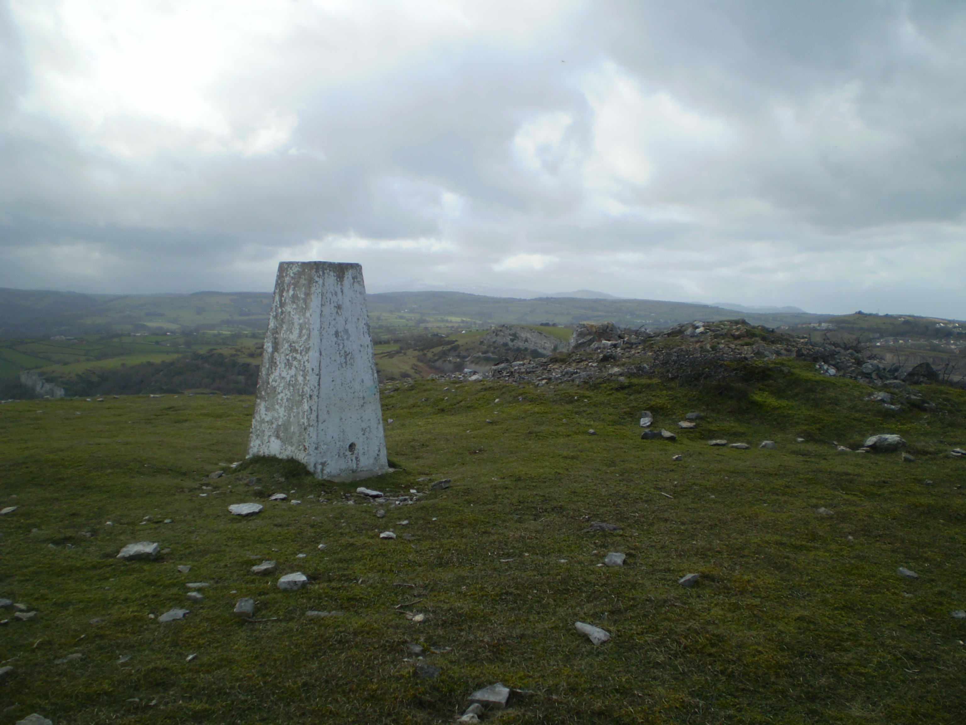 Cefn-yr-ogof trig point in north wales